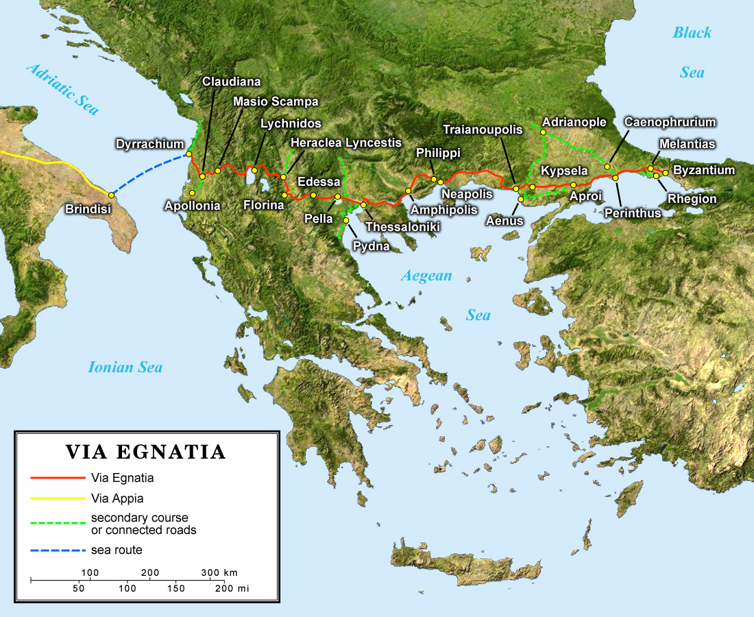 English map of the antic Roman Via Egnatia crossing the South of the Balkans.